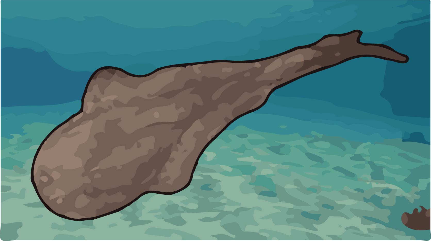 Loganellia, swimming in a shallow sea 400 million years ago.